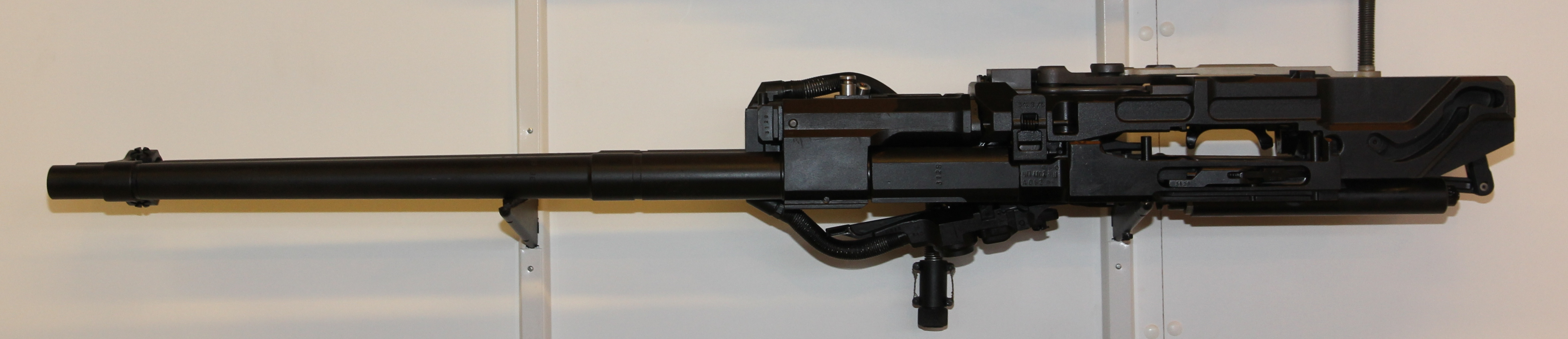 Soviet aircraft guns in Aviation Museum of Central Finland: GSh-23 cannon used in MiG-21bis fighters.